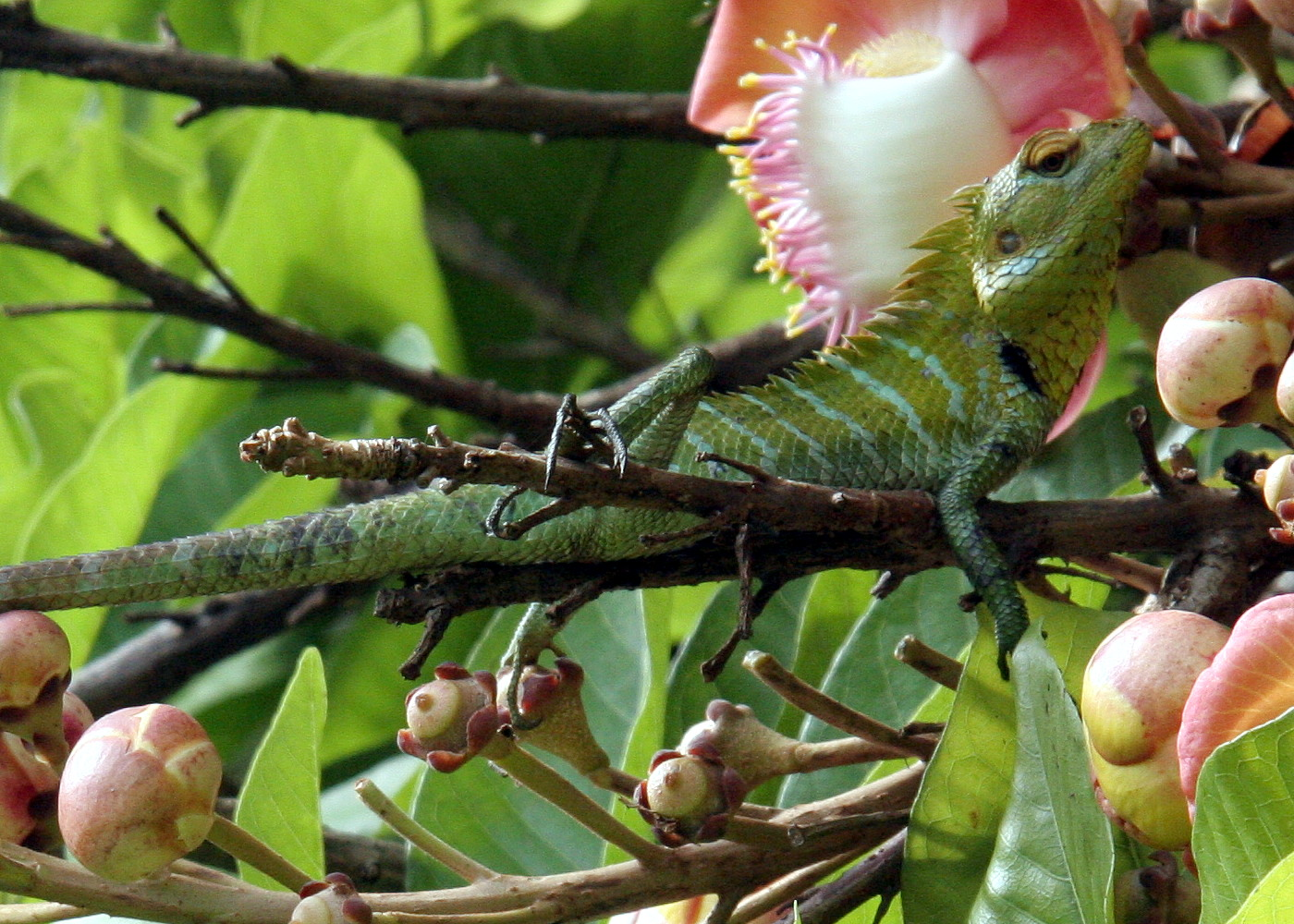 Calotes sp.